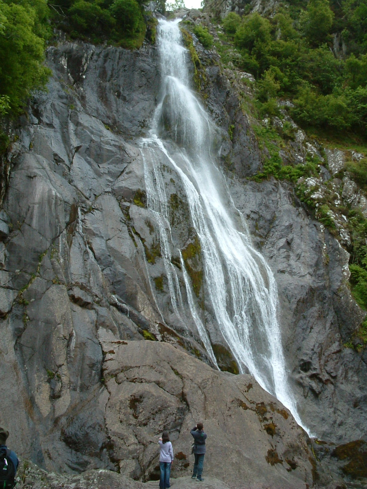 Aber Falls, Gwynedd. Taken by James@hopgrove, May 2004.